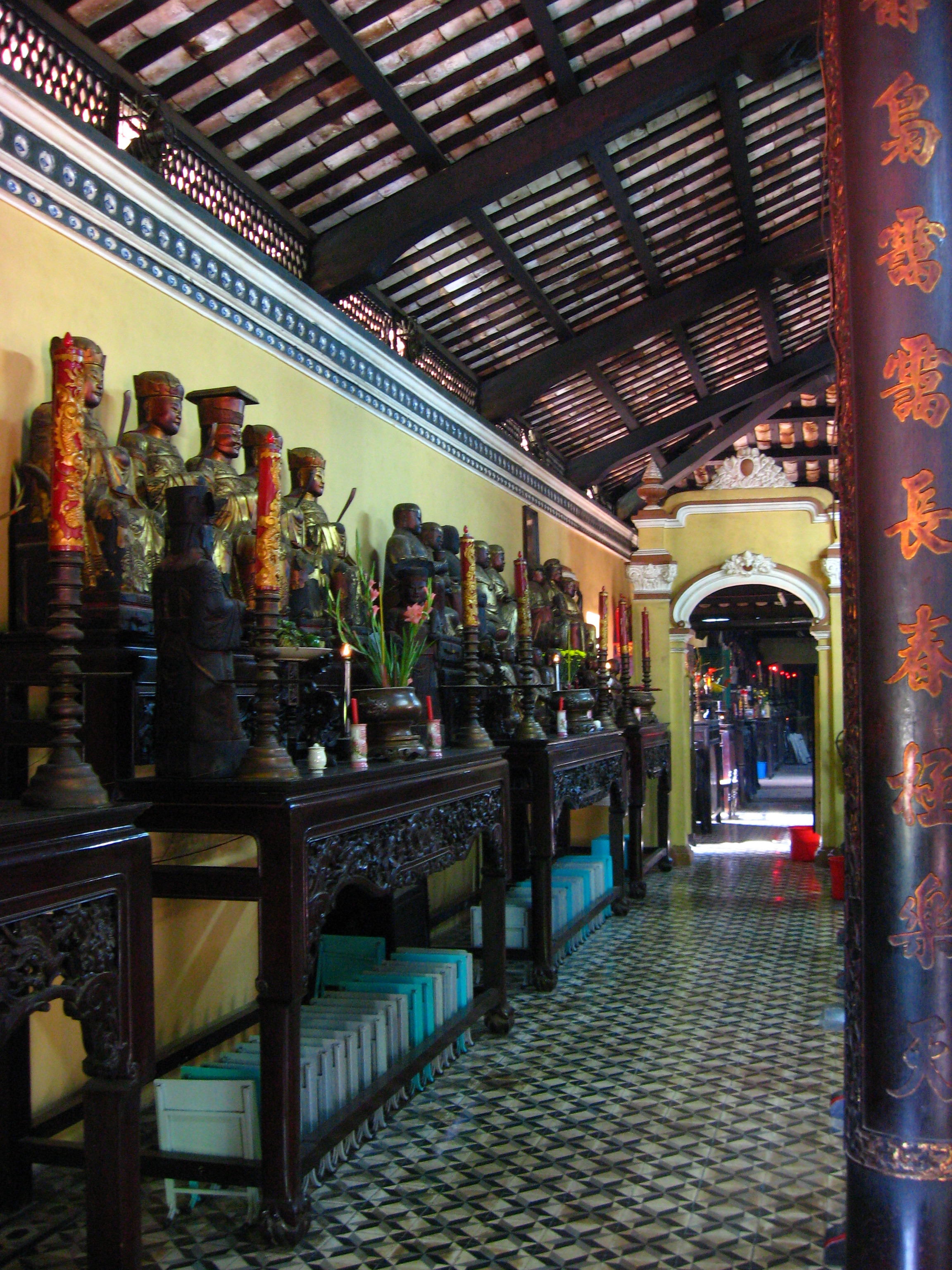 A hallway lined with wooden Buddhist statues — inside Giac Lam Pagoda, Ho Chi Minh City.